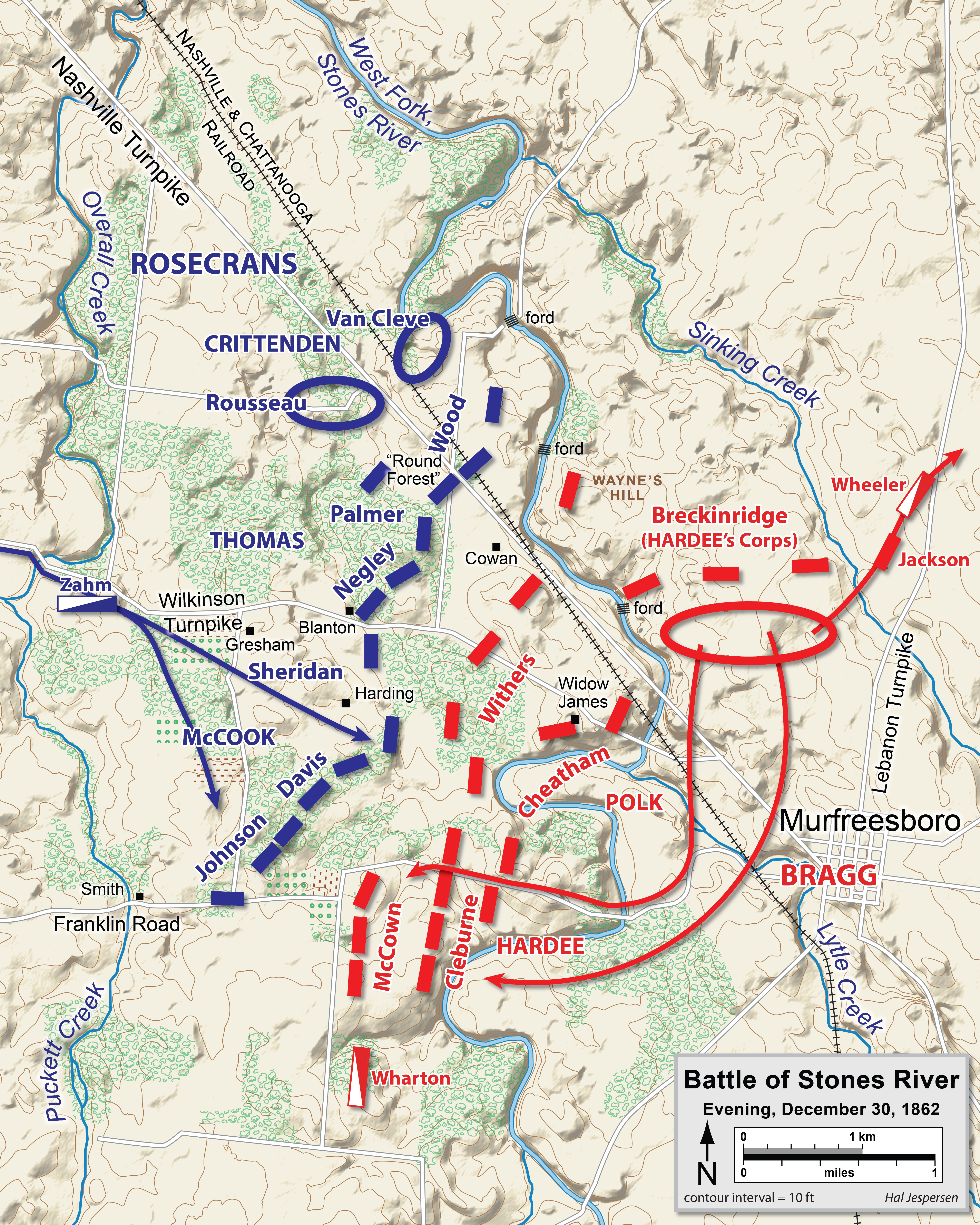 Map of the Battle of Stones River of the American Civil War.